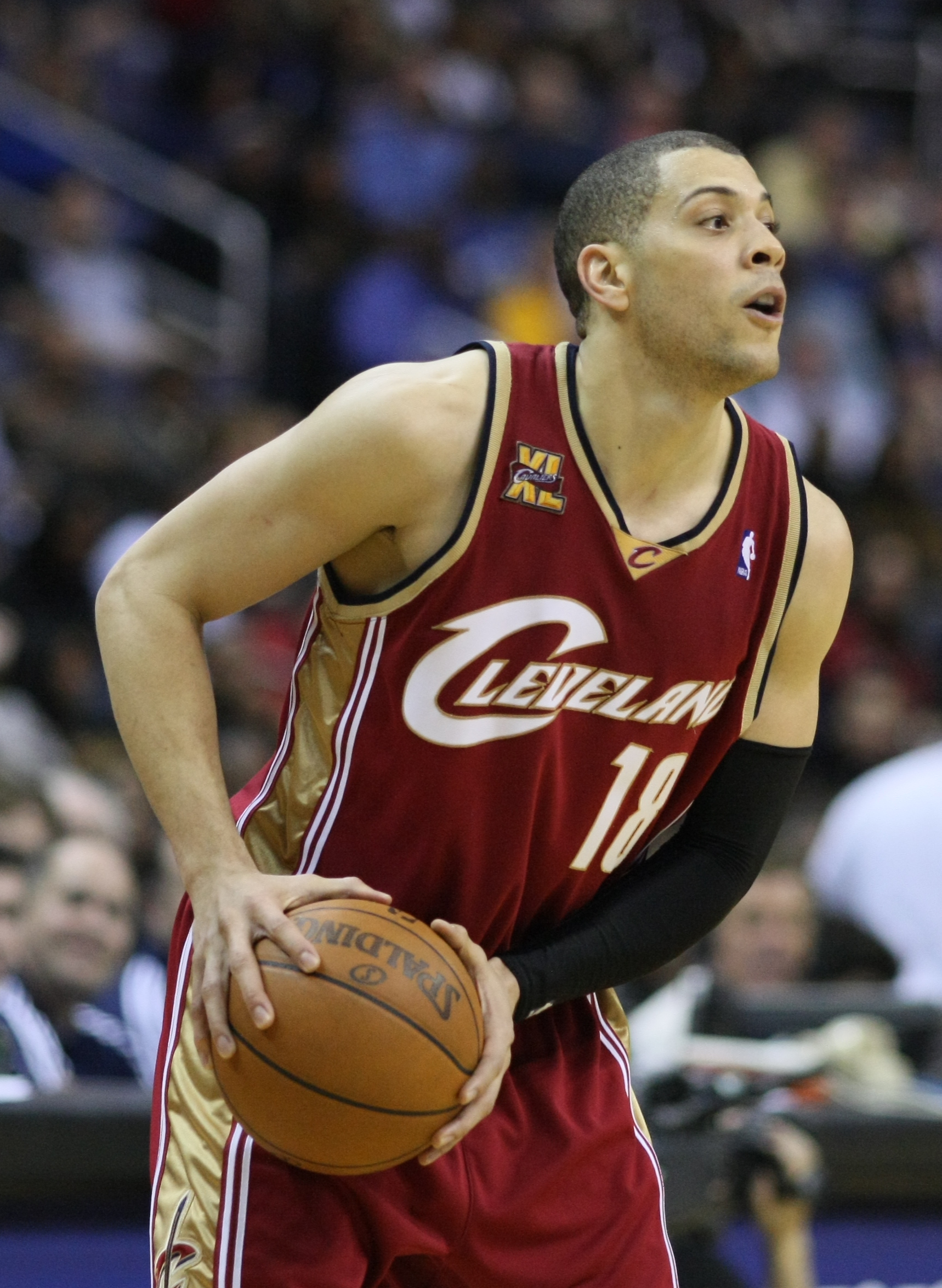 Anthony Parker in Washington Wizards v/s Cleveland Cavaliers November 18, 2009 at Verizon Center in Washington, D.C.